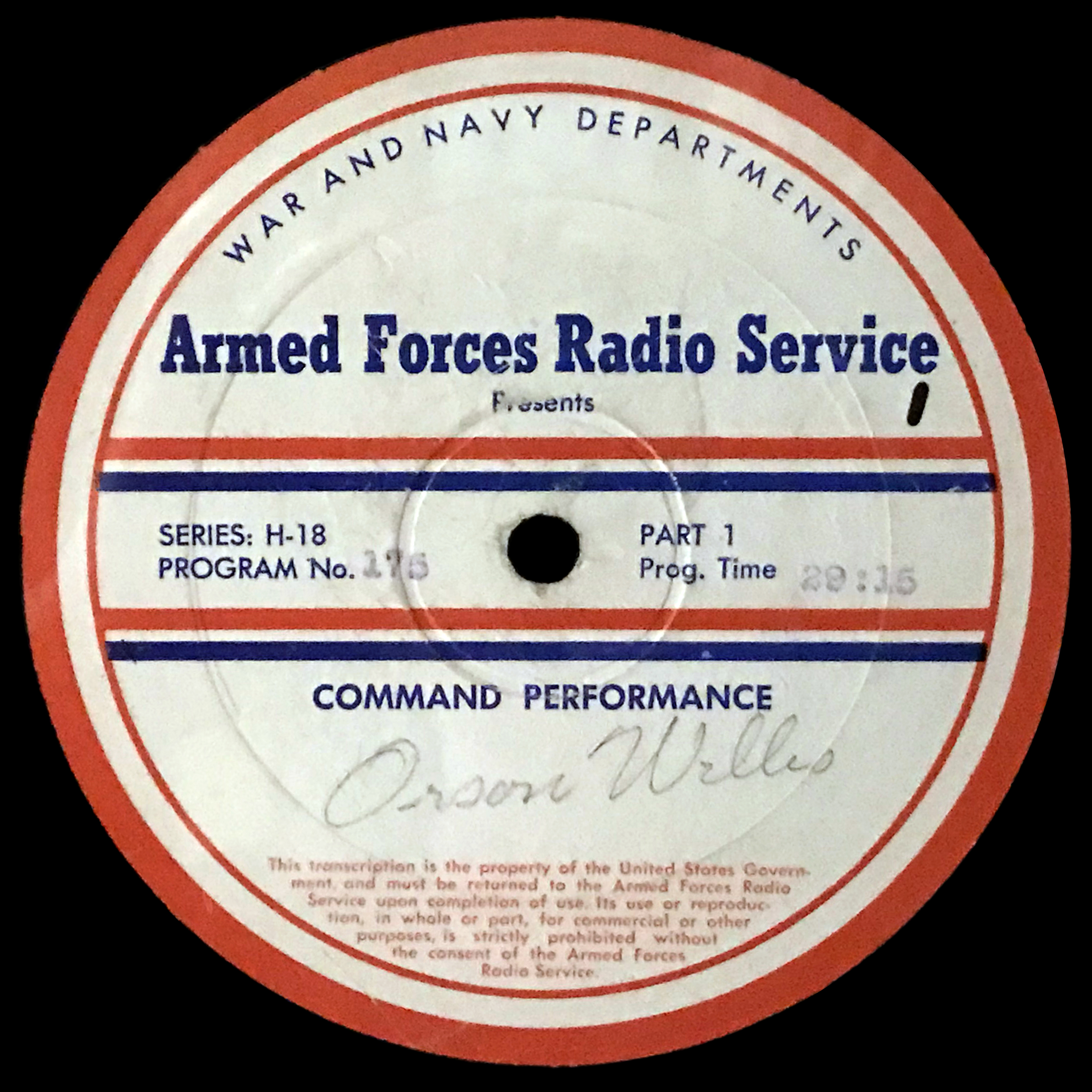 Photograph of the label of a 16-inch transcription disc for the radio series Command Performance, a program of the Armed Forces Radio Service. This side of the disc bears the autograph of featured guest Orson Welles; the opposite side is autographed by emcee Danny Thomas. More information